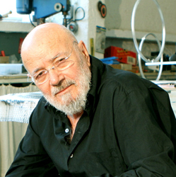 Greek sculptor Takis